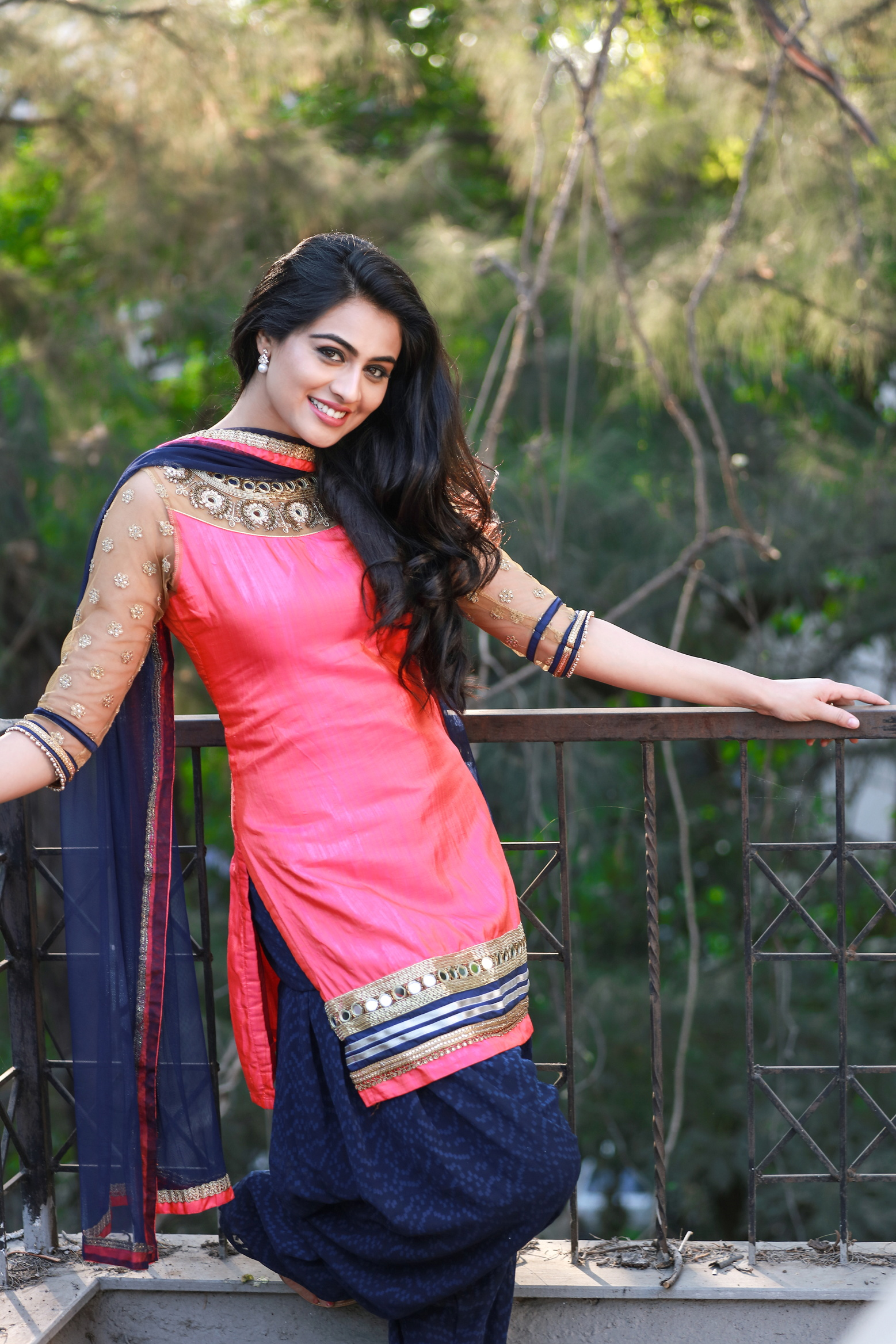 Neha Hinge RH13 Photoshoot.